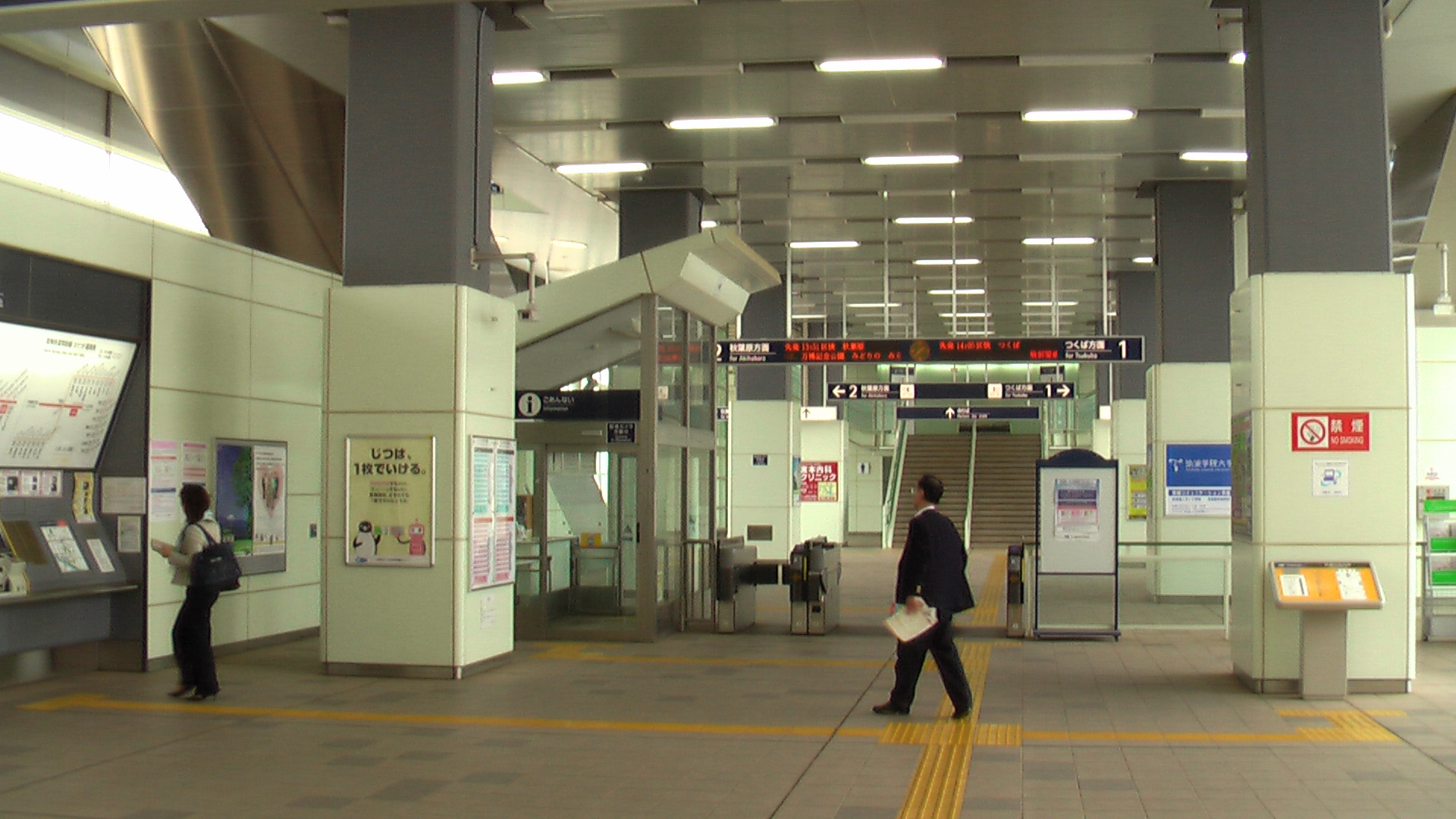 Kenkyu-gakuen Station (研究学園駅) Inside the station.